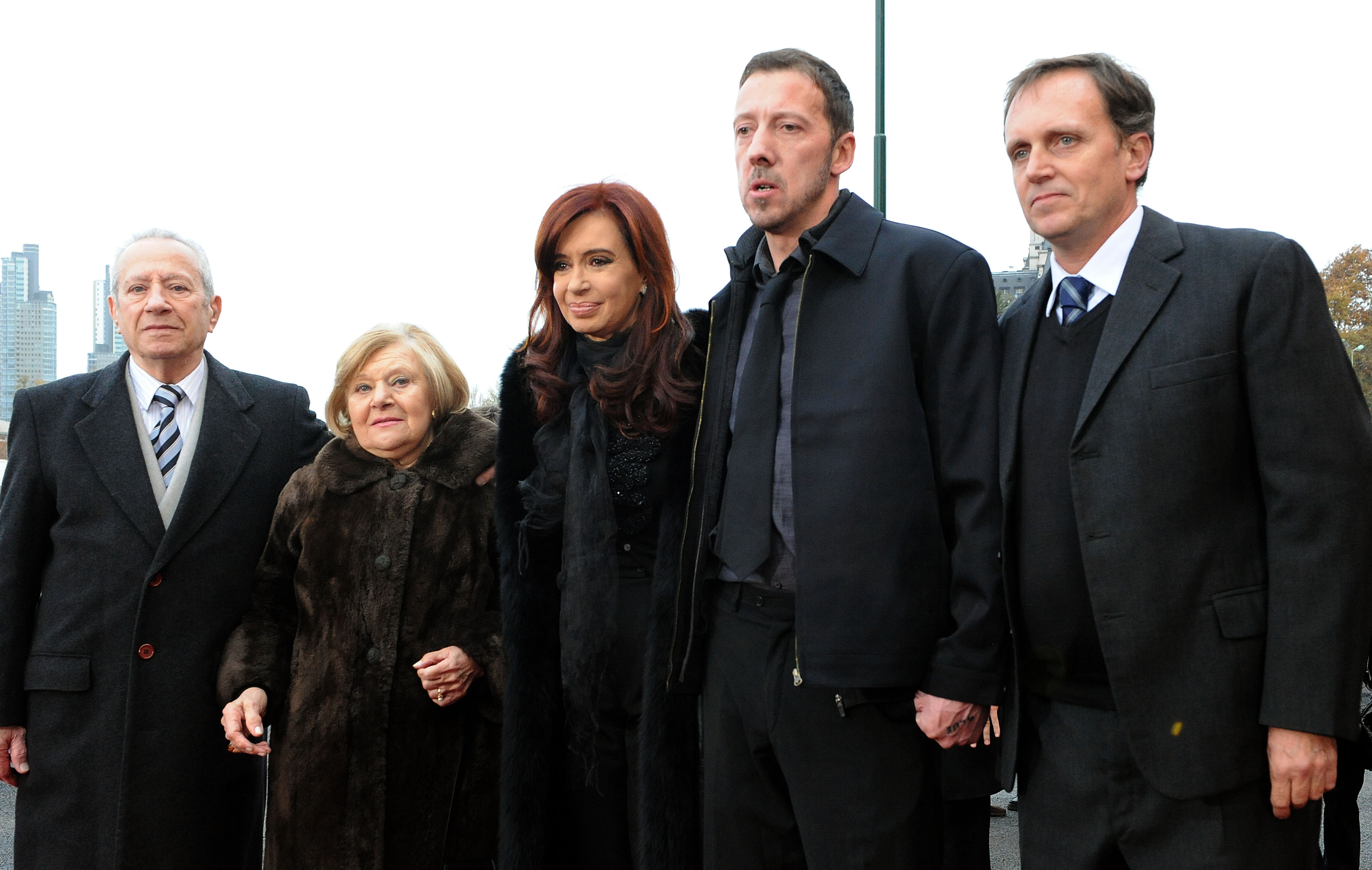 James Peck, Argentine citizen born in the Malvinas Islands, with President Cristina Fernández de Kirchner after getting his DNI (National Identity Document)